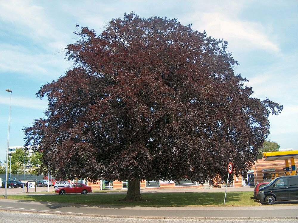 Red Beech on Randersvej in Århus